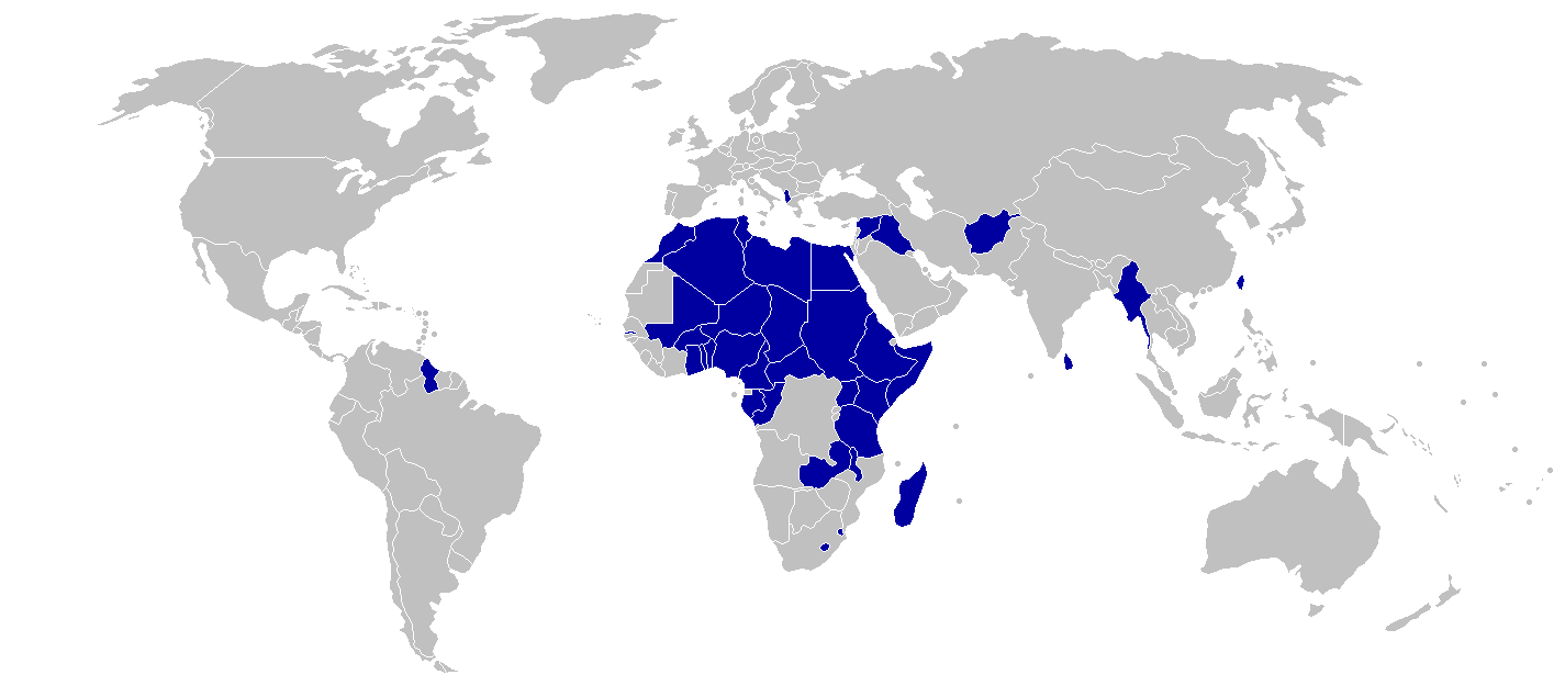 1976 Summer Olympics boycotting countries (blue color on the map)